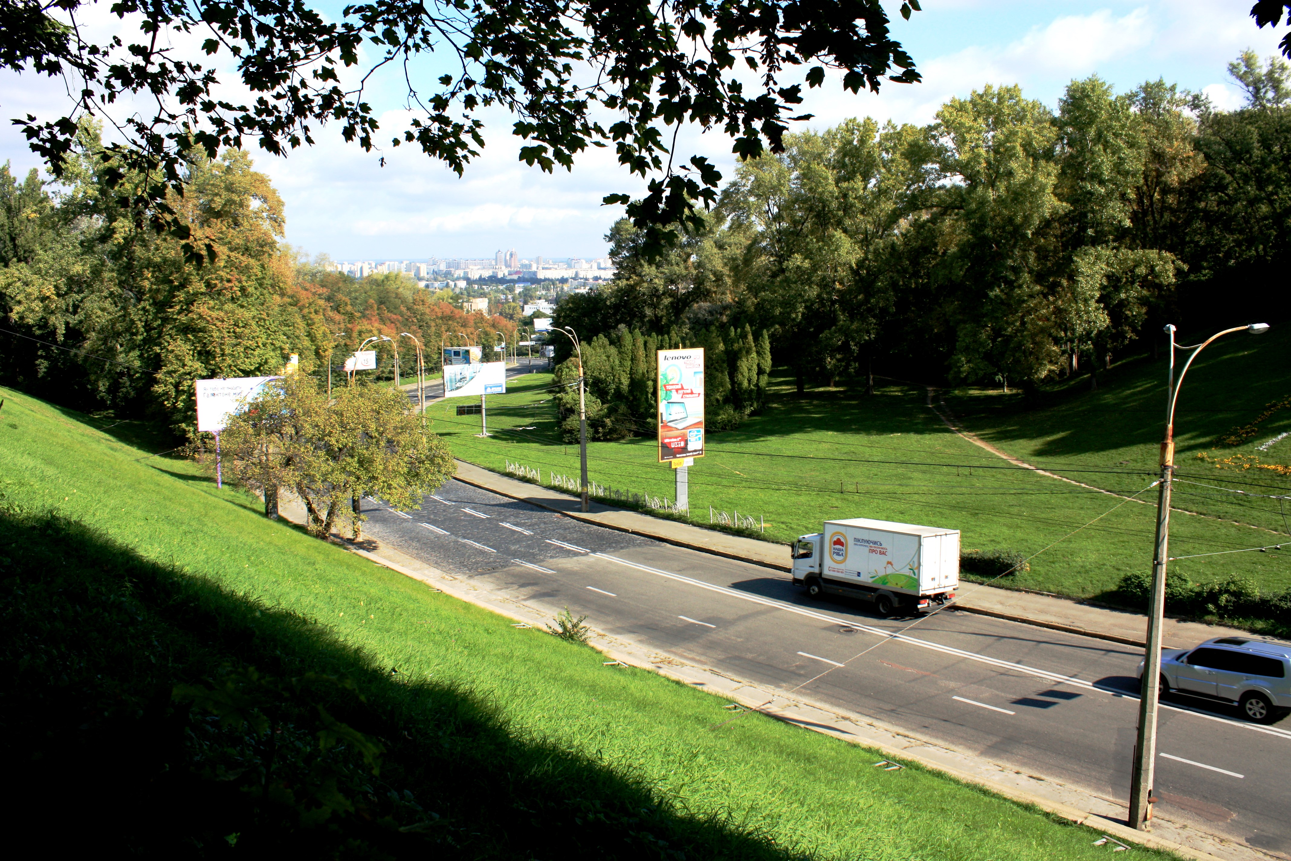 Podilskiy uzviz in Kiev, Ukraine